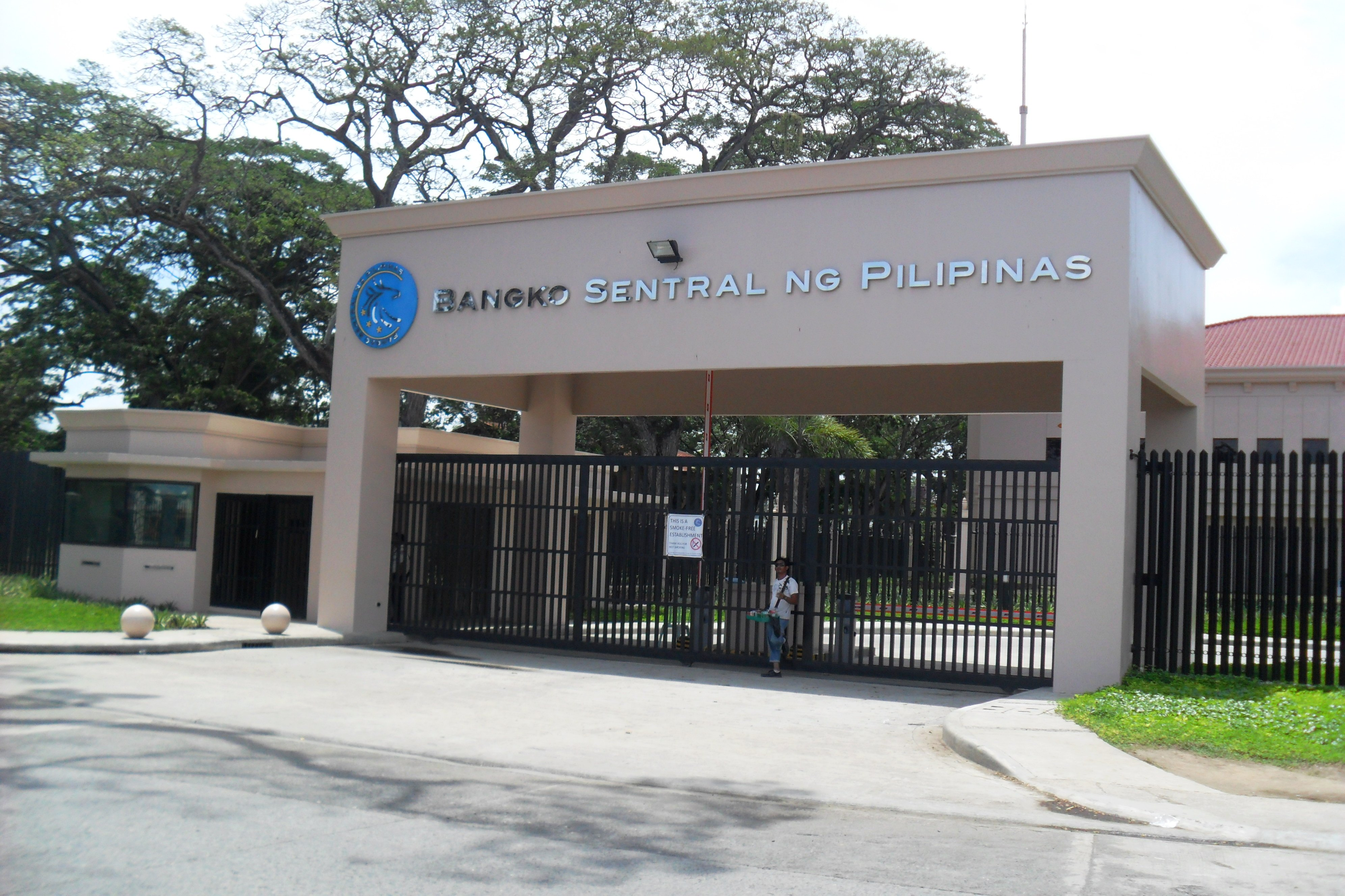 Zamboanga City Branch - Banco Sentral ng Pilipinas (BSP)